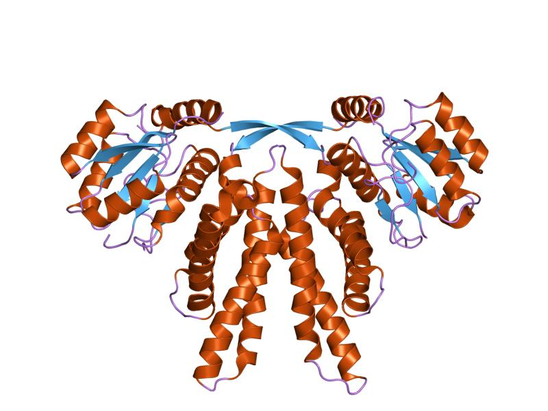 Cartoon representation of the molecular structure of protein registered with 1r8j code.